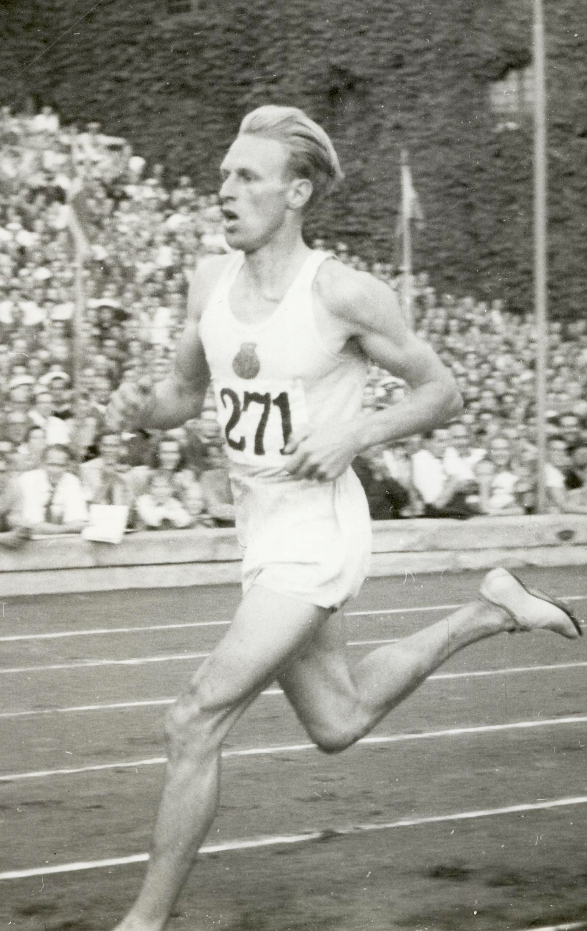 Henry Eriksson at the 1947 Swedish Championships